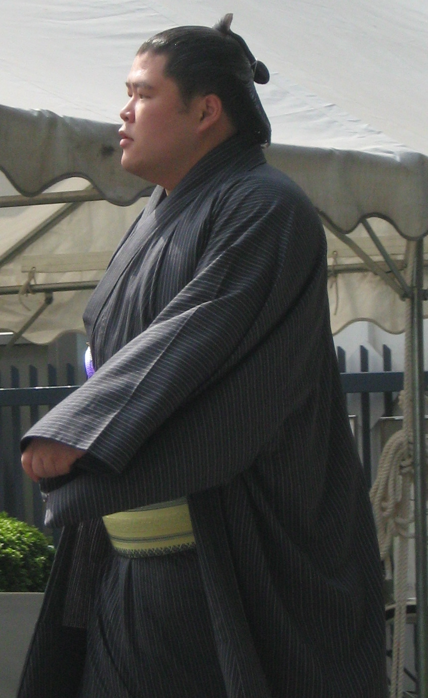 taken at Sep 2008 tournament